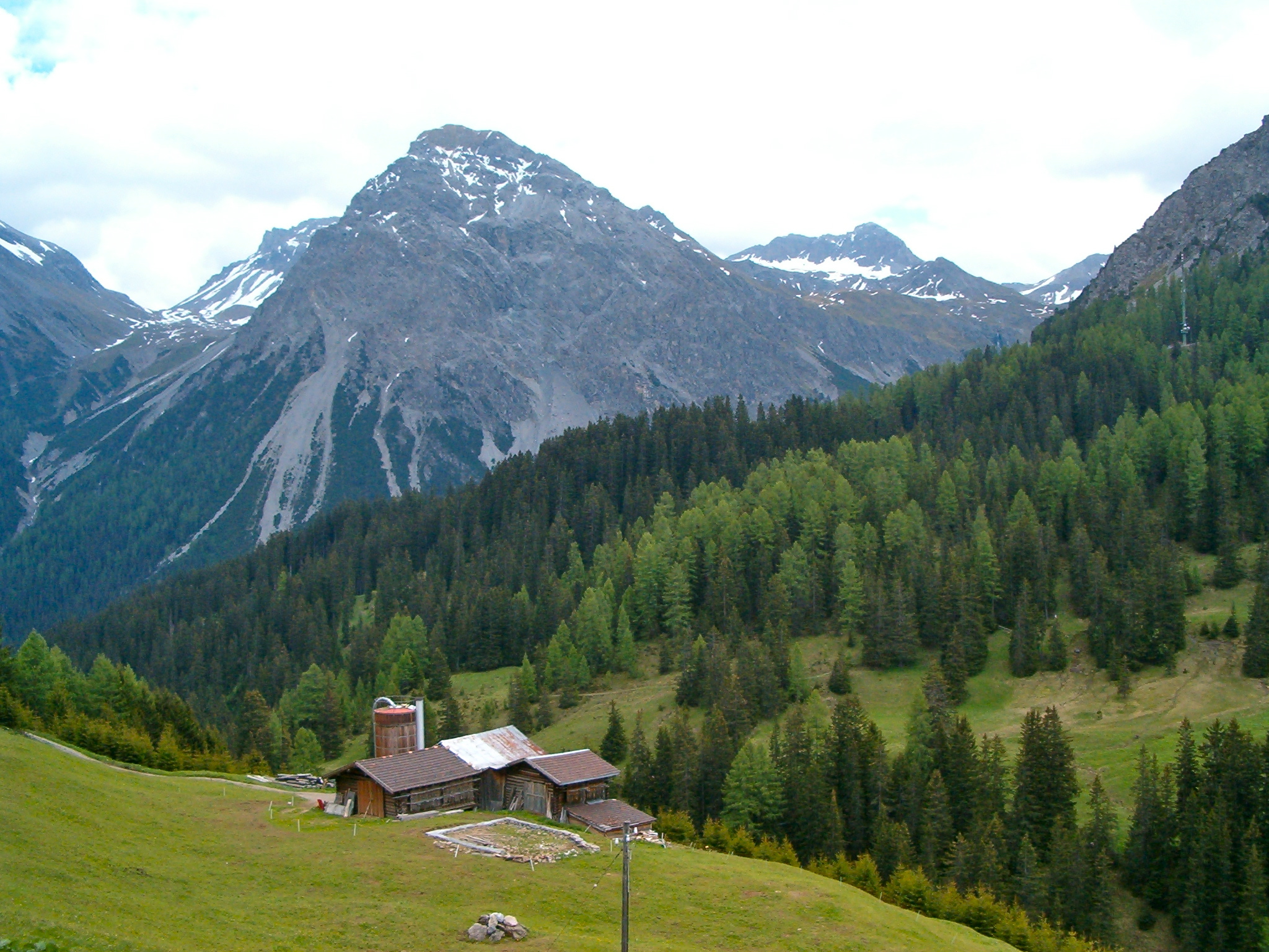 Schiesshorn, Aroser Dolomites, Switzerland